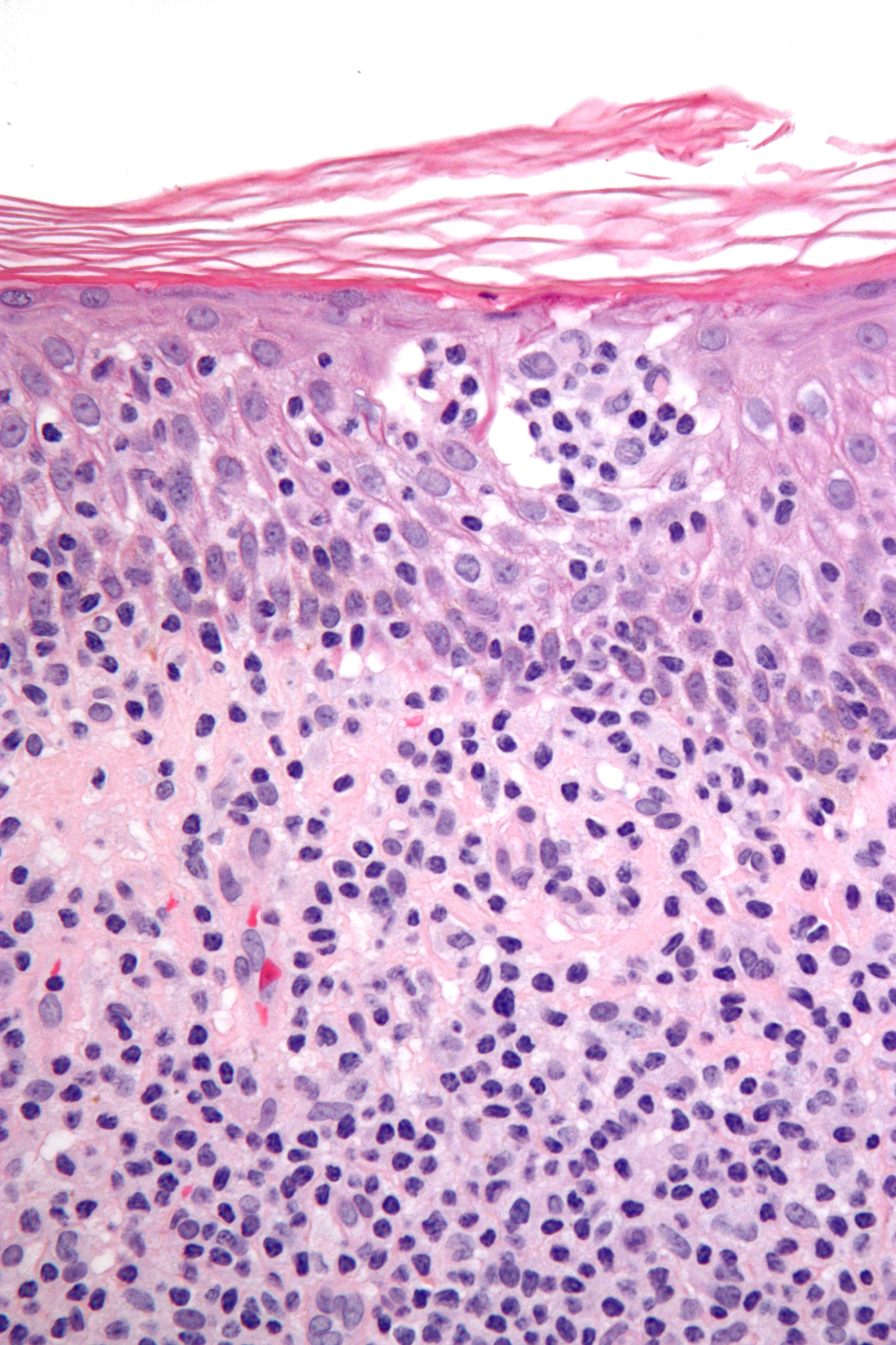 Very high magnification micrograph of cutaneous T-cell lymphoma, abbreviated CTCL. H&E stain. Features: Nests of lymphocytes in the epidermis; "Pautrier microabscesses". Single lymphocytes in epidermis; "lymphocyte exocytosis". Short linear arrays of lymphocytes along the basal layer of the epidermis; "epidermotropism". Related images Intermed. mag. High mag. Very high mag.